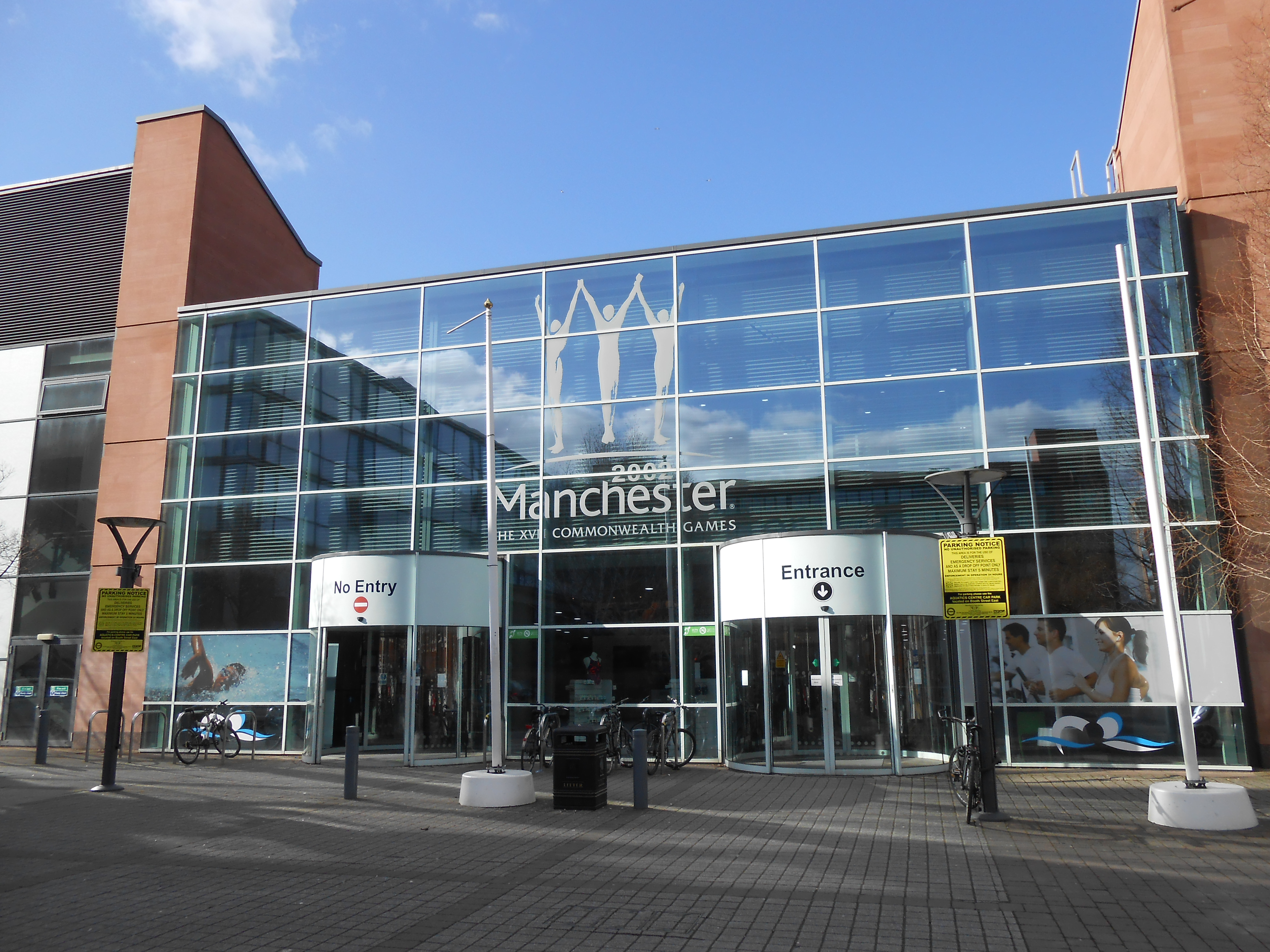 Entrance to Manchester Aquatics Centre, England.